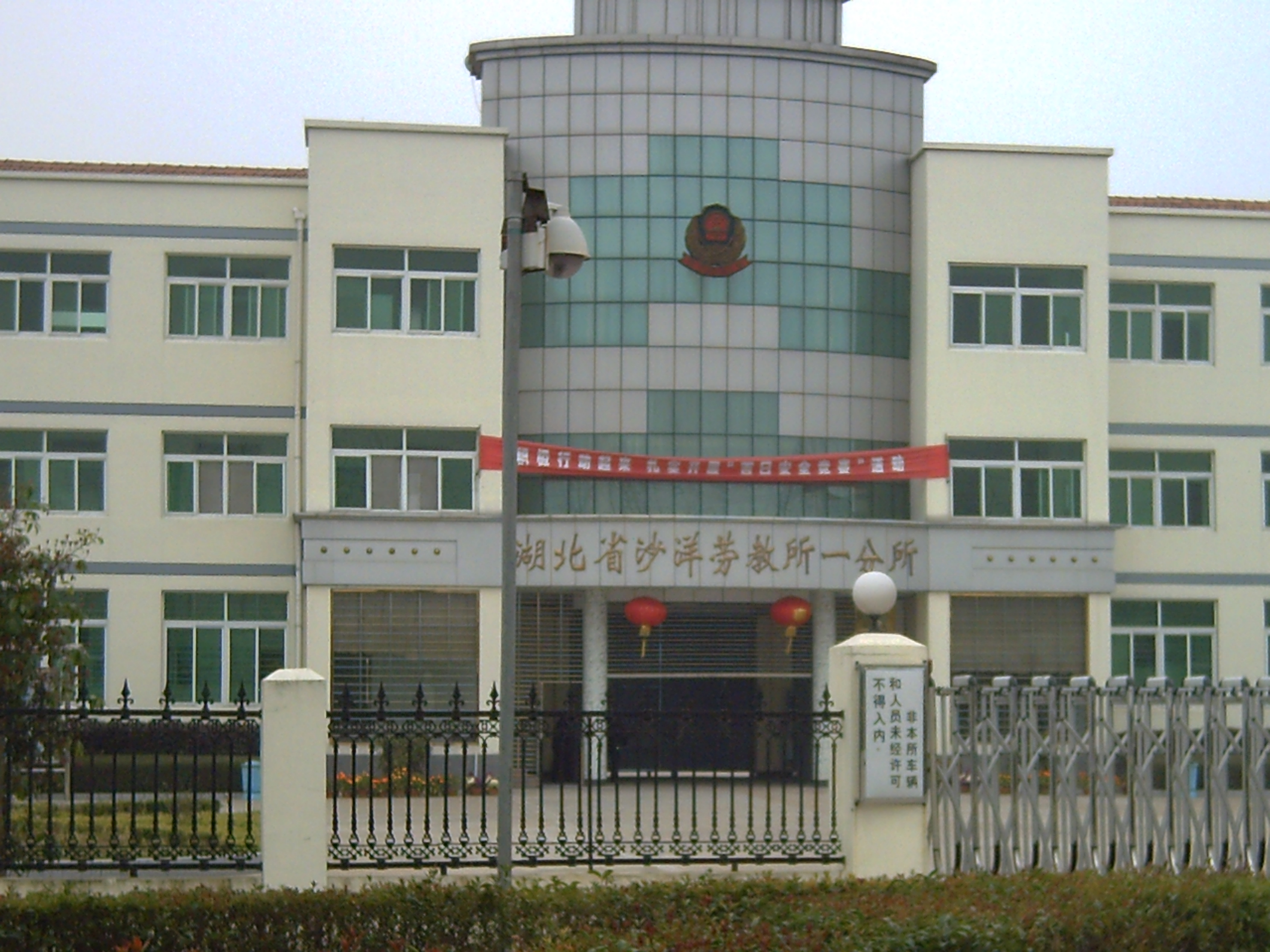 Workers in the Shayang Re-education Through Labor (Shayang Farm), a re-education through labor camp in Liaoning province. Photo part of the archives of the Laogai Museum (uused with permission of the Laogai Research Foundation, ).